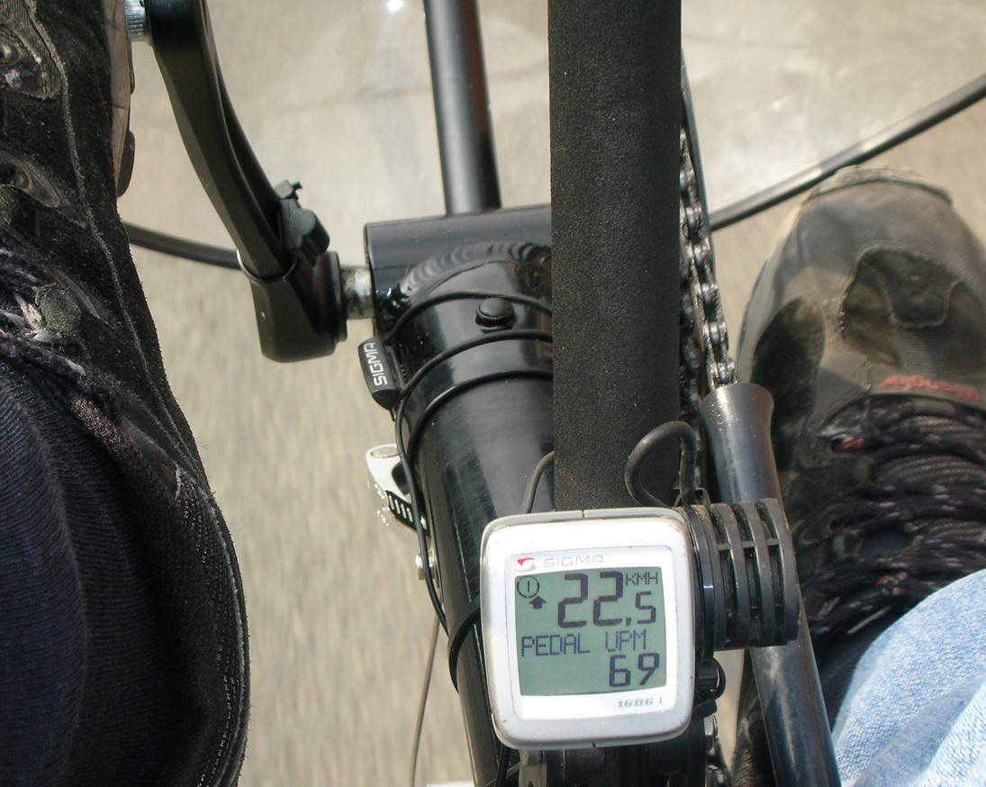 Sigma Sport BC 1606L Cyclocomputer with Cadence Sensor and magnet on a recumbent bike.